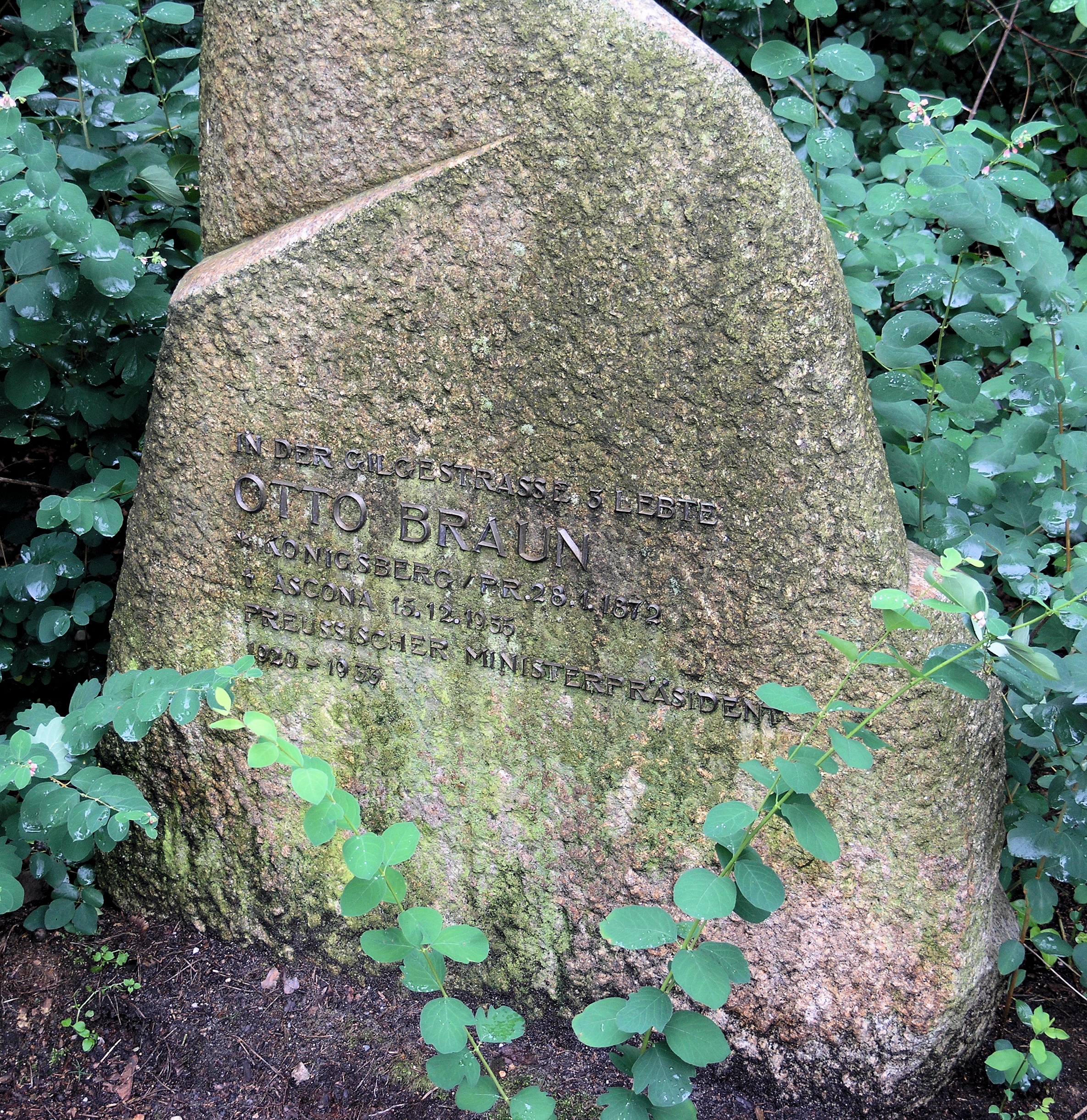 Memorial stone, Otto Braun, Gilgestraße 3, Berlin-Zehlendorf, Germany